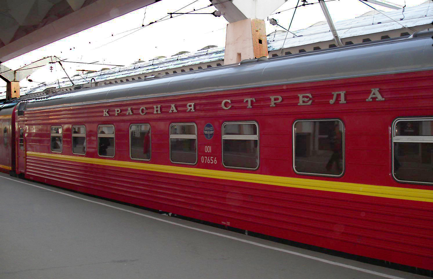 russian named passenger train "Krasnaya Strela" St. Peterburg - Moskovskii station